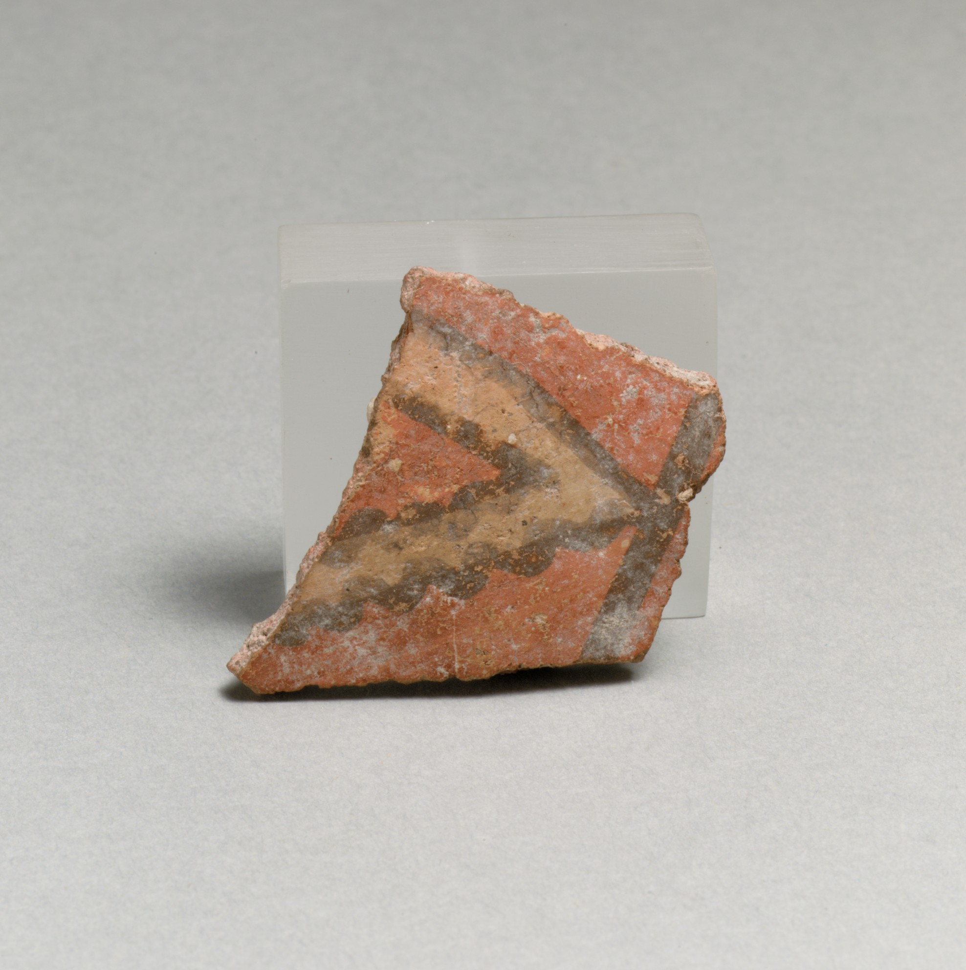 Greek Neolithic; Vase fragment; Vases